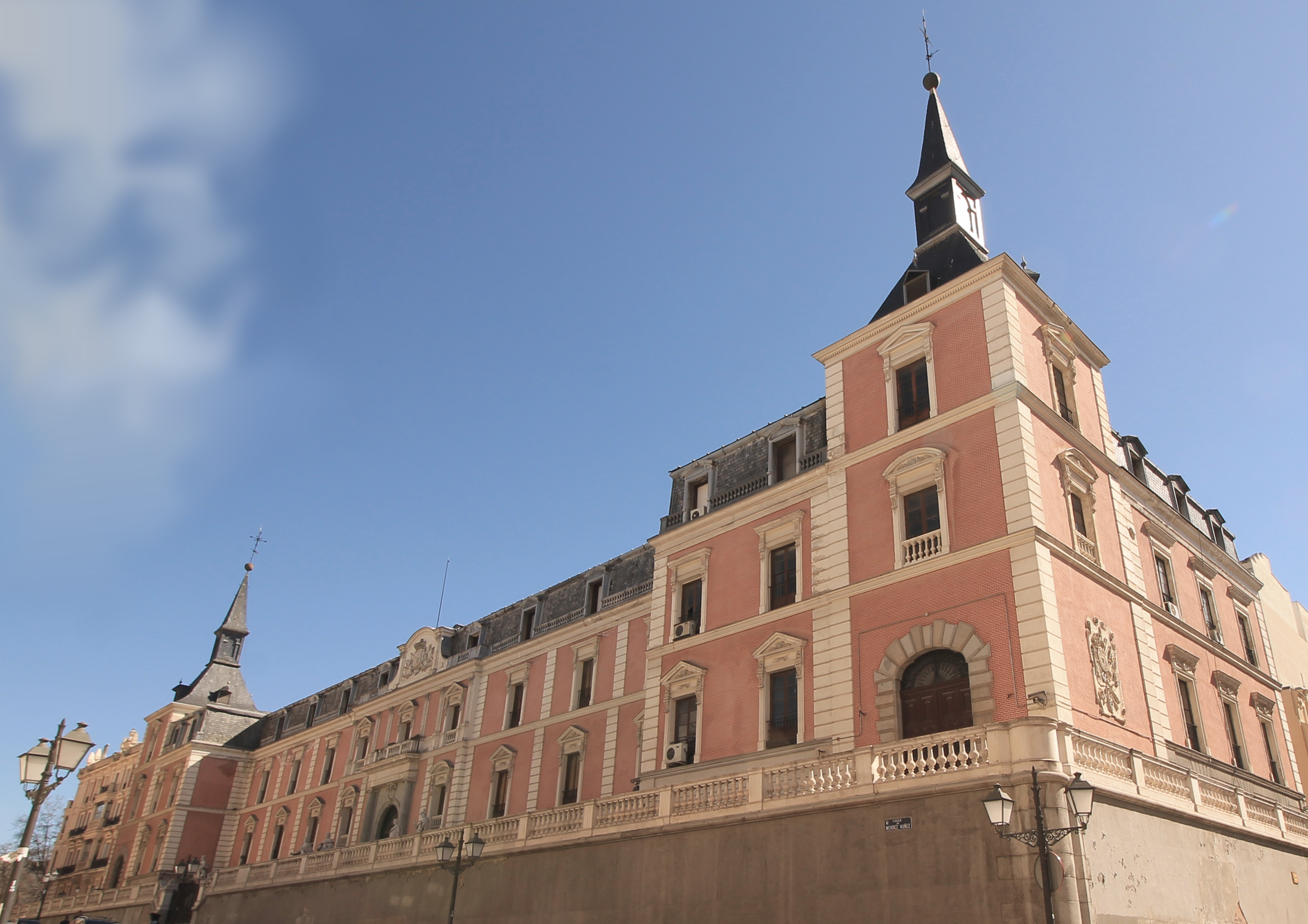 View of Salón de Reinos in Madrid (Spain) from the north-west angle.